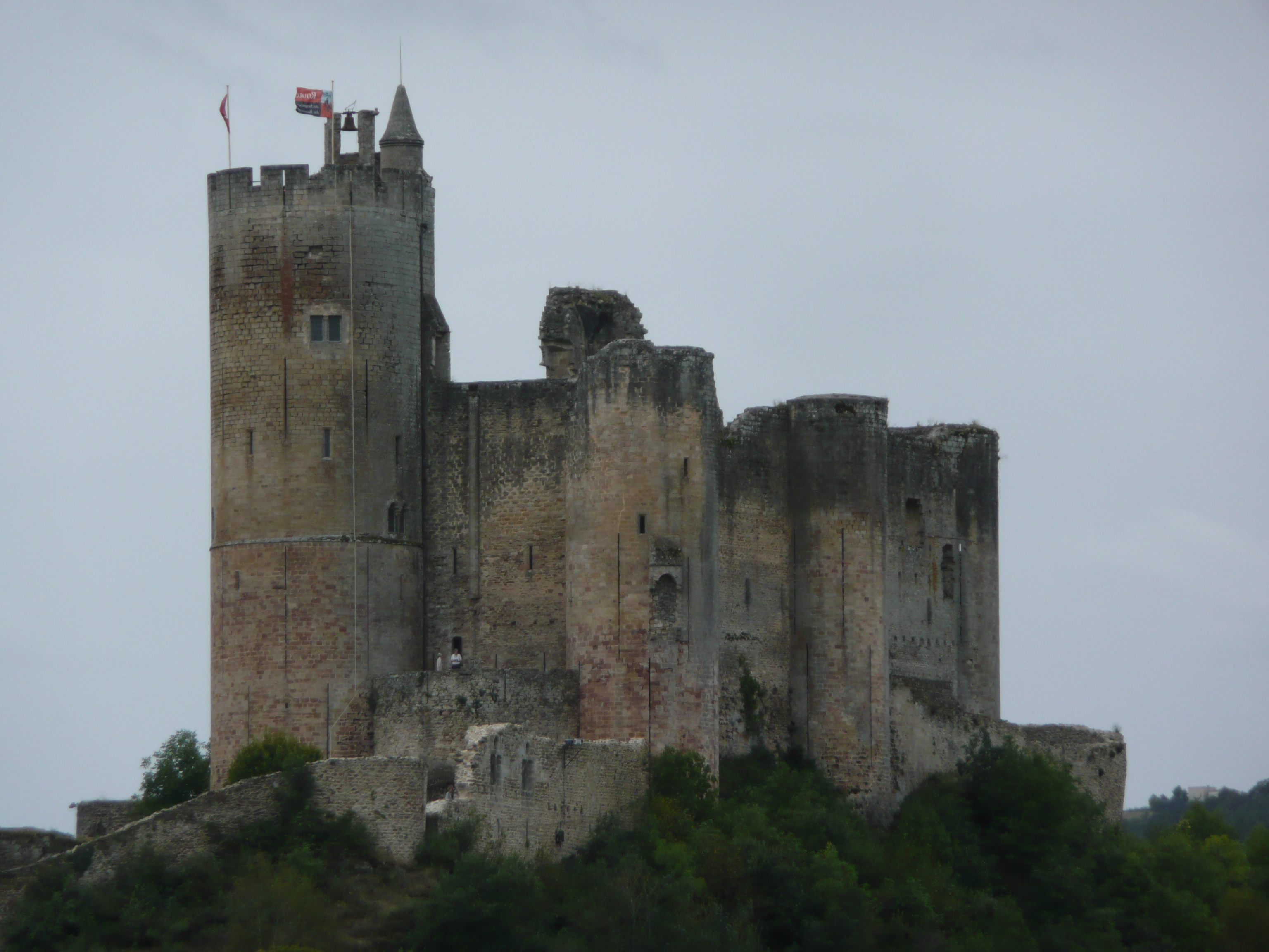 Forteress of Najac Map: 44° 13' 07" N 1° 58' 24" E